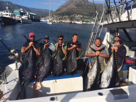 Photo of fisherman's catch in Hout Bay harbour